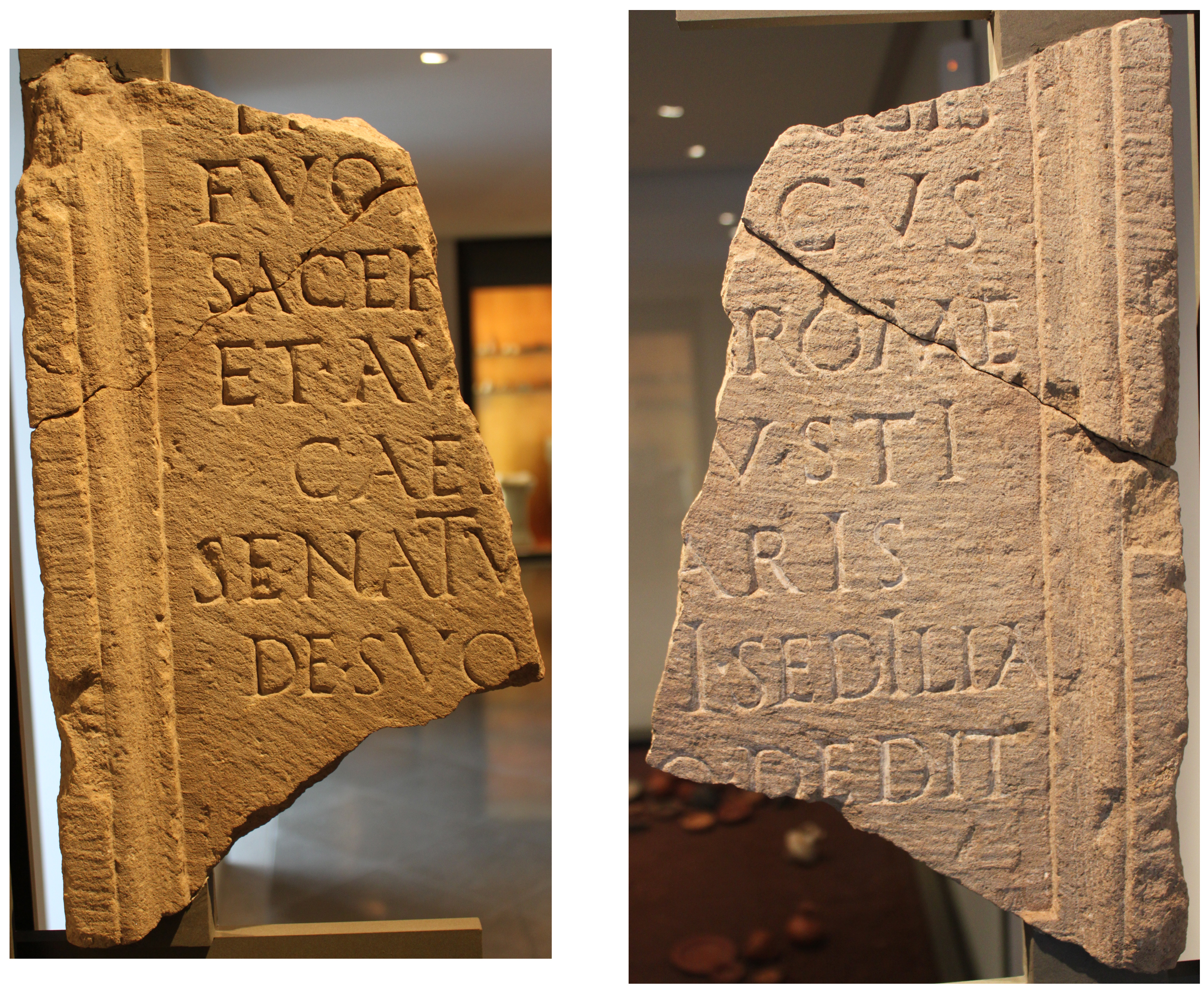 Ancient Roman inscription from Rodez (Aveyron, France), now in the Fenaille museum. References : AE 1994, 1215.